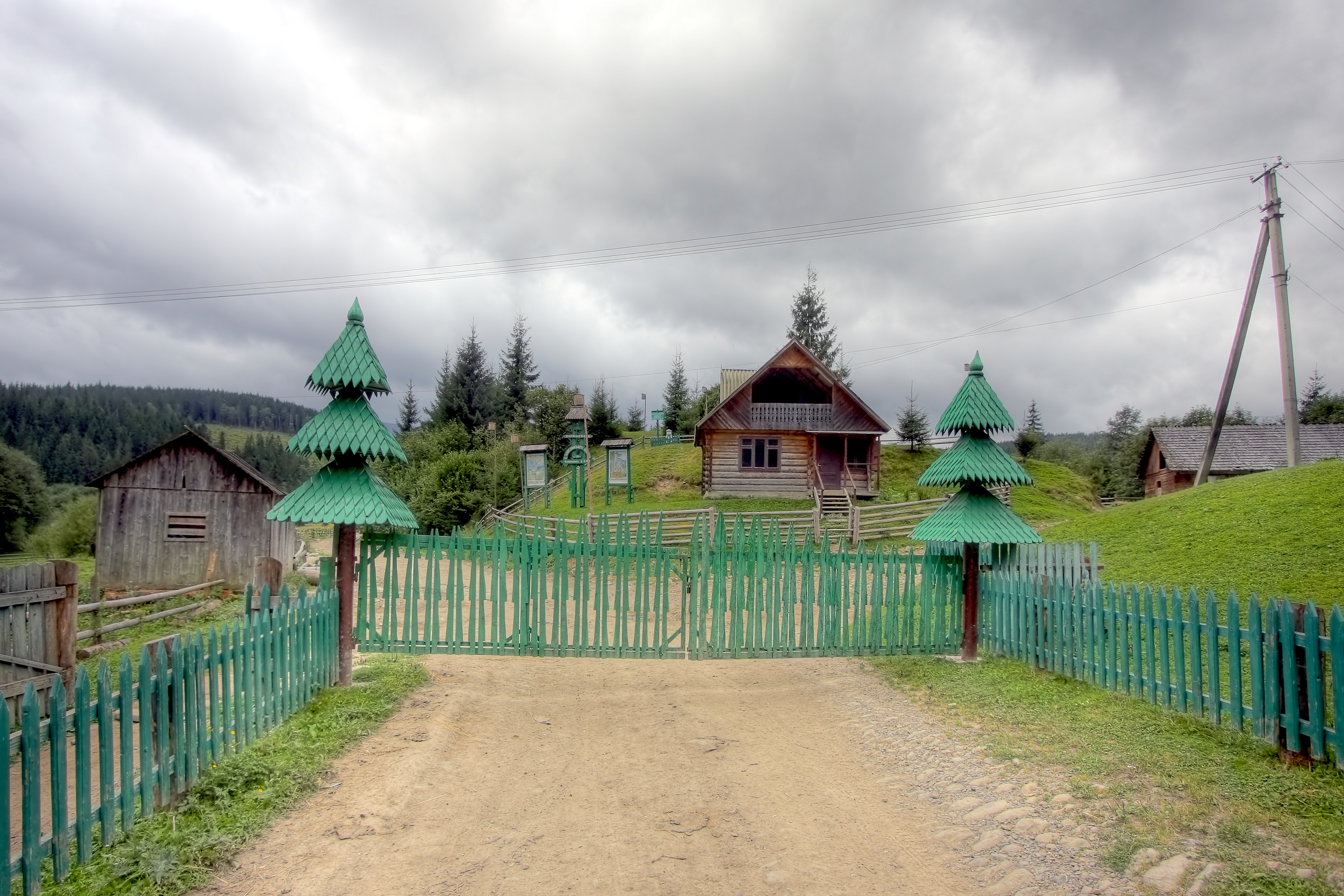 A timber house near the village Chorna Tysa, Rakhiv Raion, Zakarpattia Oblast, Ukraine